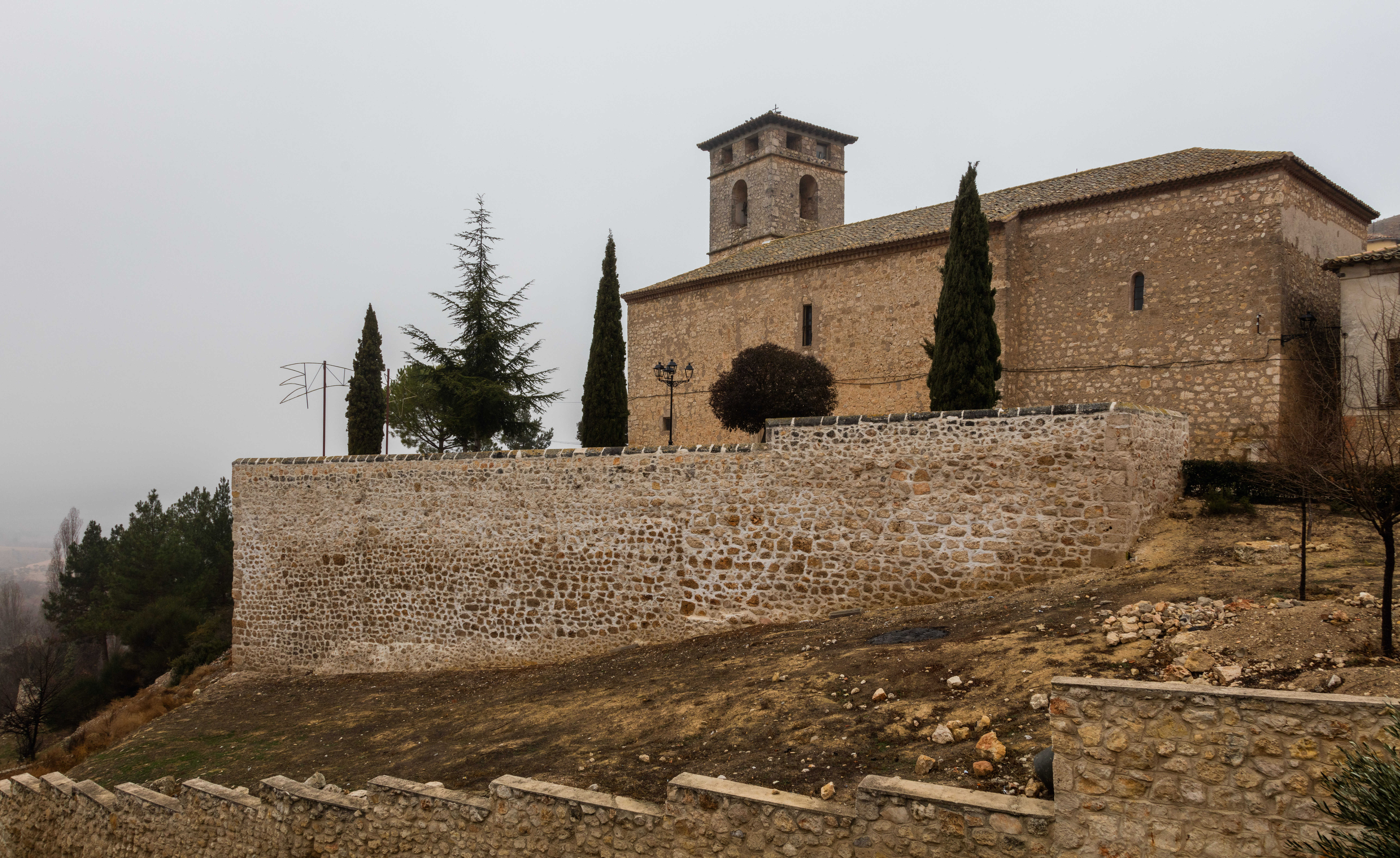 Church of St Michael the Archangel, Fuentelviejo, Guadalajara, Spain